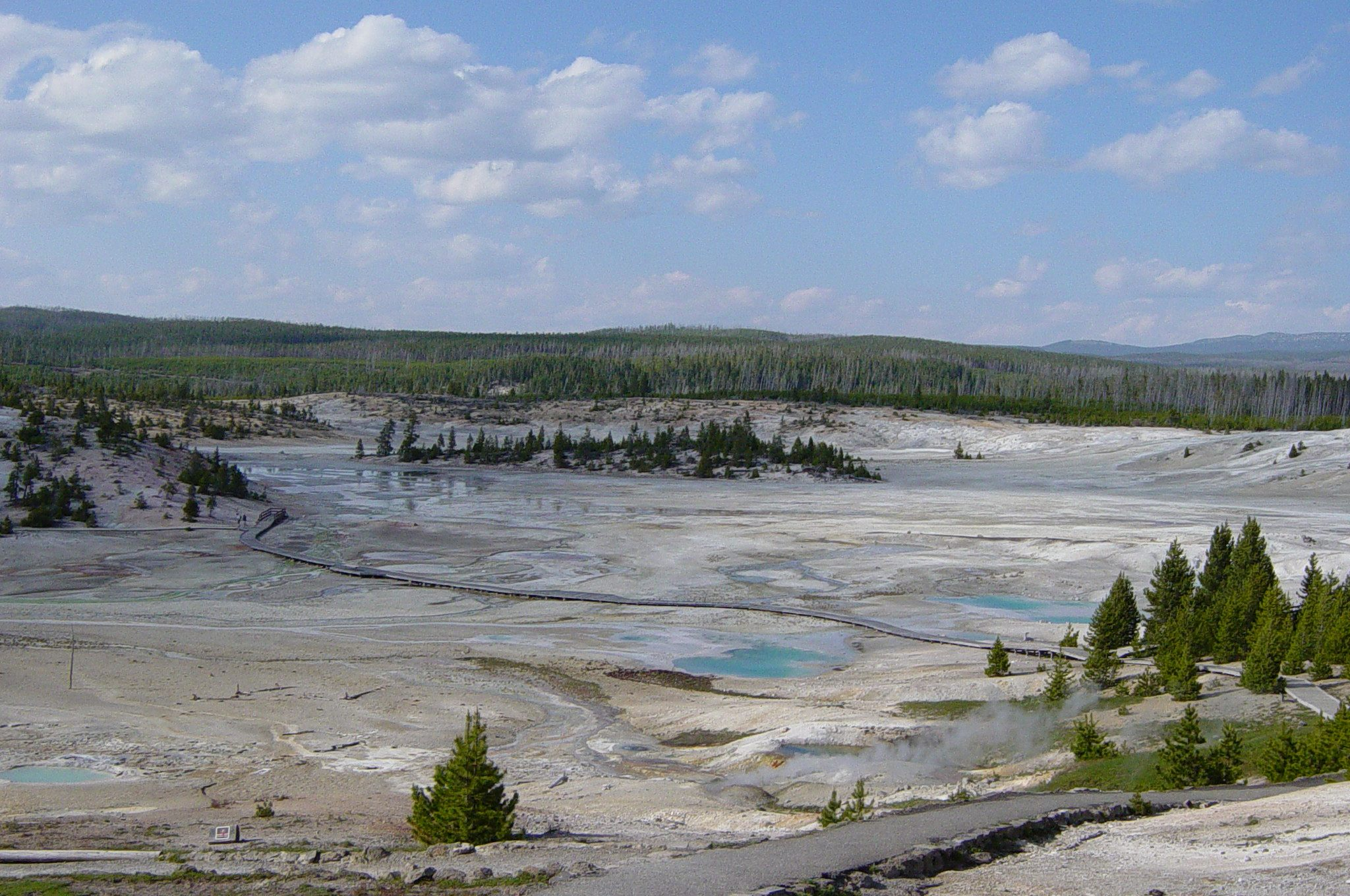 Porcelain Basin, Norris Geyser Basin in Yellowstone National Park.